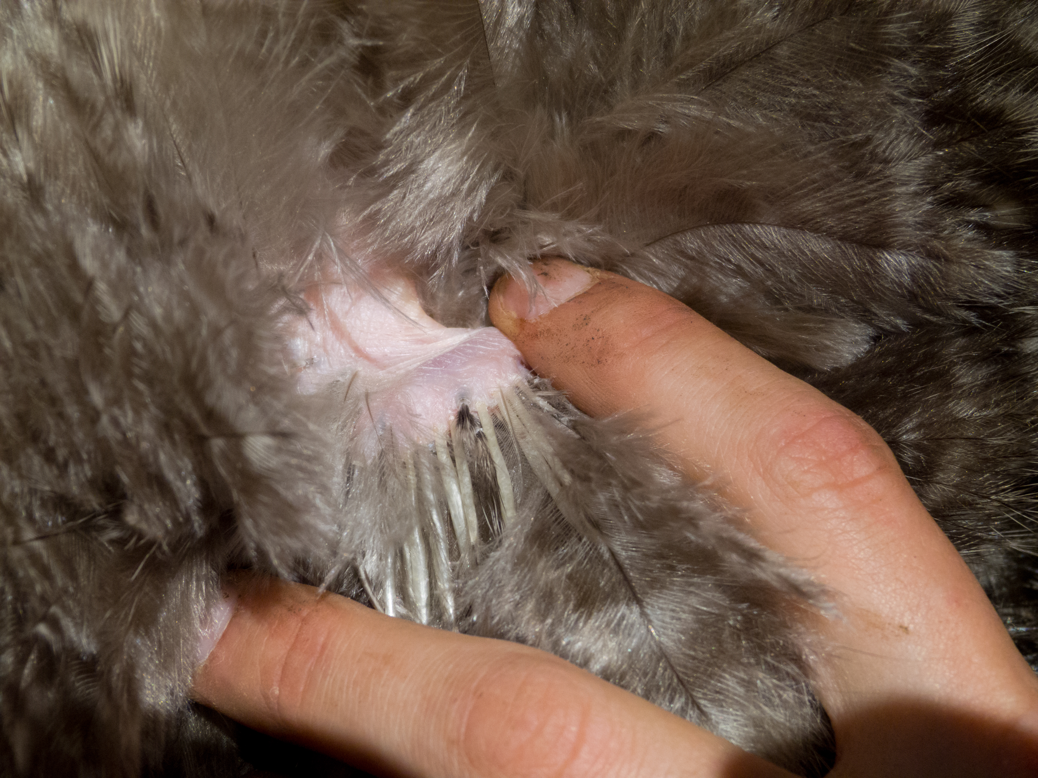 Vestigial wing of a little spotted kiwi (Apteryx owenii; kiwi pukupuku) held open by the fingers of a kiwi researcher at Zealandia EcoSanctuary, Wellington, New Zealand.